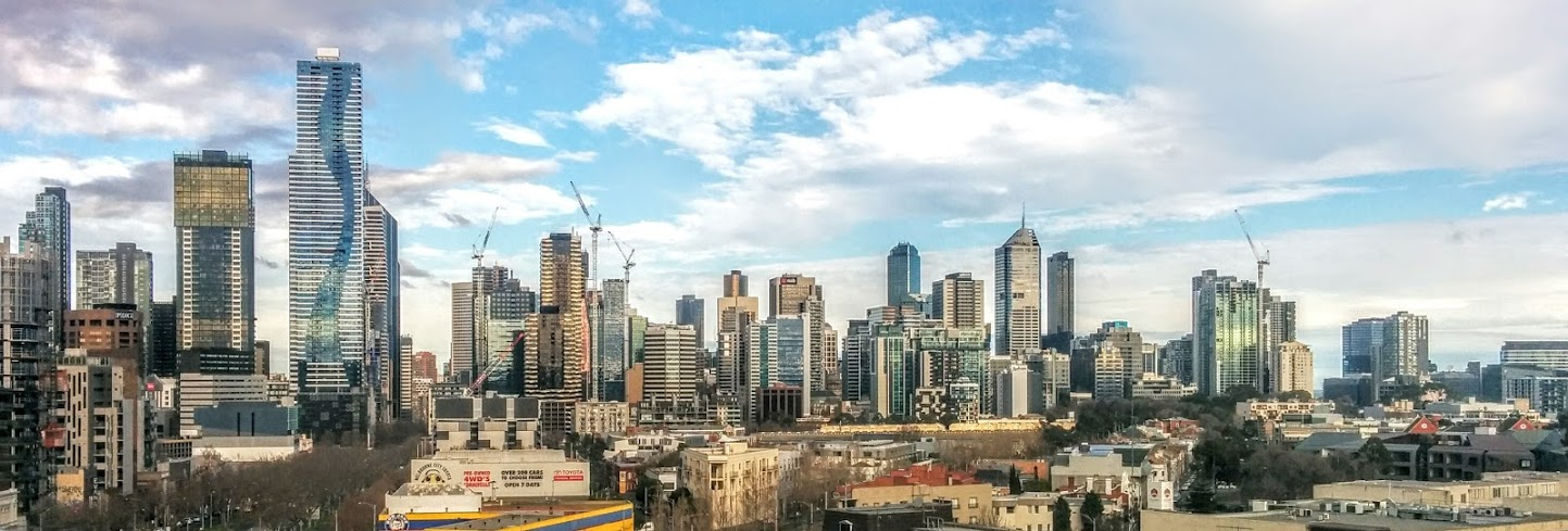 View of the city of Melbourne, Australia from the north, from the 7th floor of the VCCC building in Parkville.